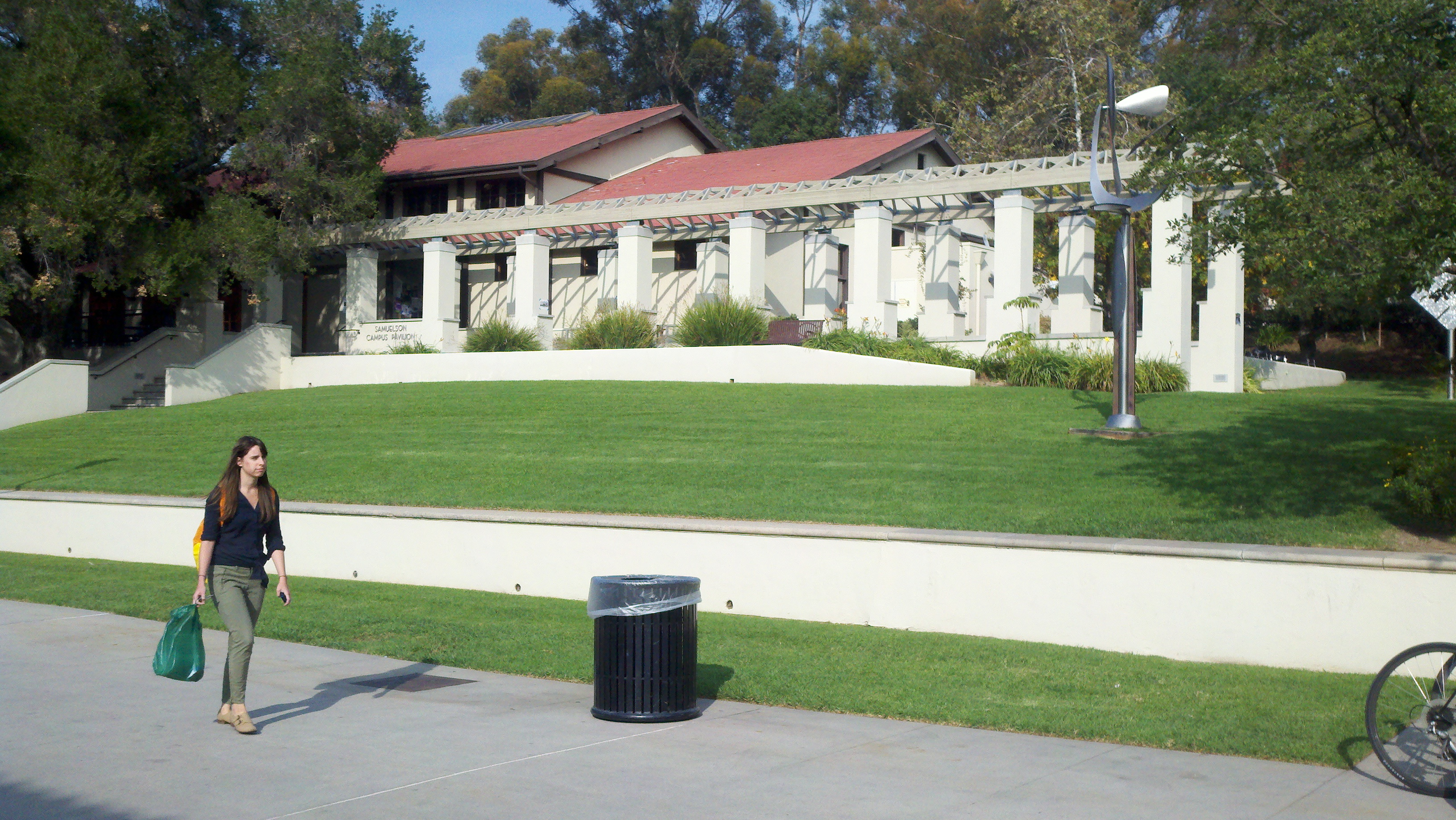 Samuelson at Occidental College in Los Angeles, California